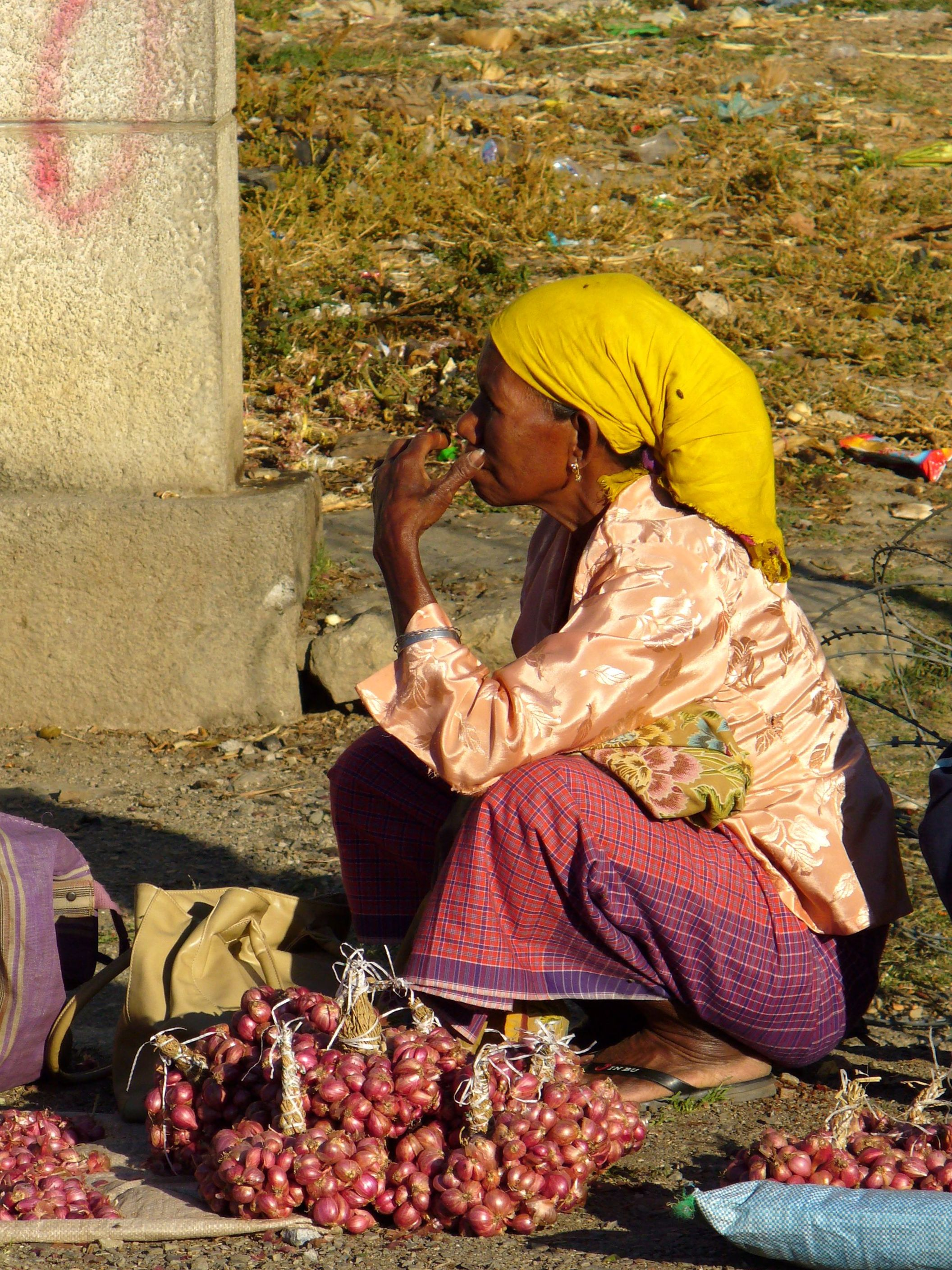 Market, Maubisse, East Timor